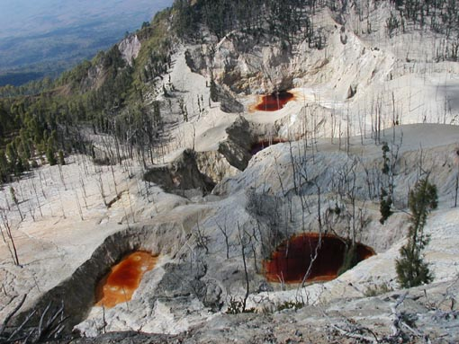 Small mercury lakes after eruption in 2001 of the Inielika volcano located in the central part of the island of Flores, Indonesia, north of the city of Bajawa